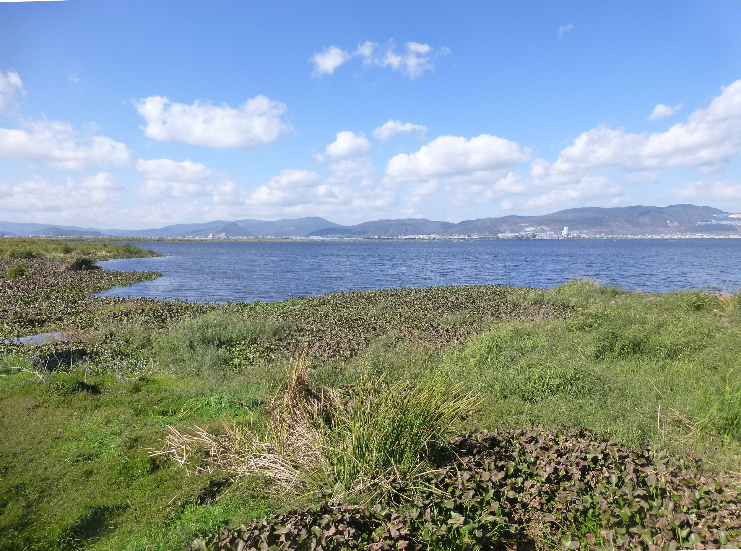 On the south shore of Qilu Lake.